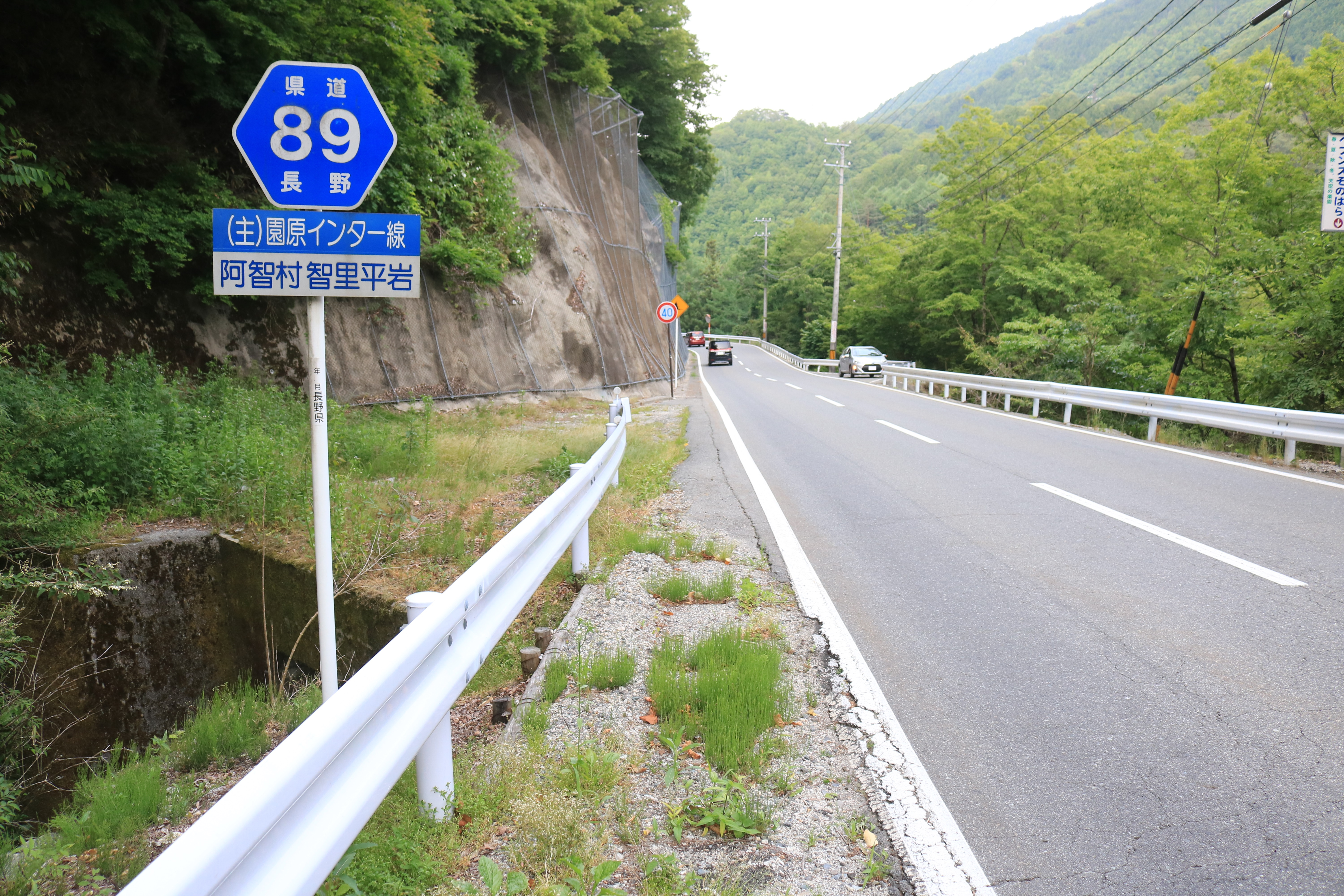 Nagano Prefectural Road Route 89 in Chisato, Achi, Nagano prefecture, Japan.